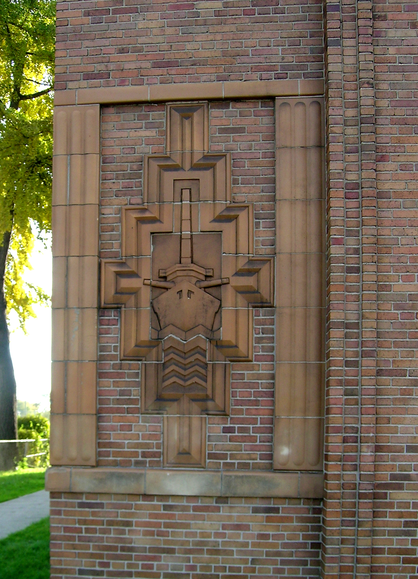 Art Deco architectural element — a glazed tiles relief piece by Corrado Parducci at the main arched brick portal. At Denby High School — in Detroit, southeastern Michigan.